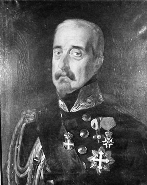 painting of Alberto La Marmora